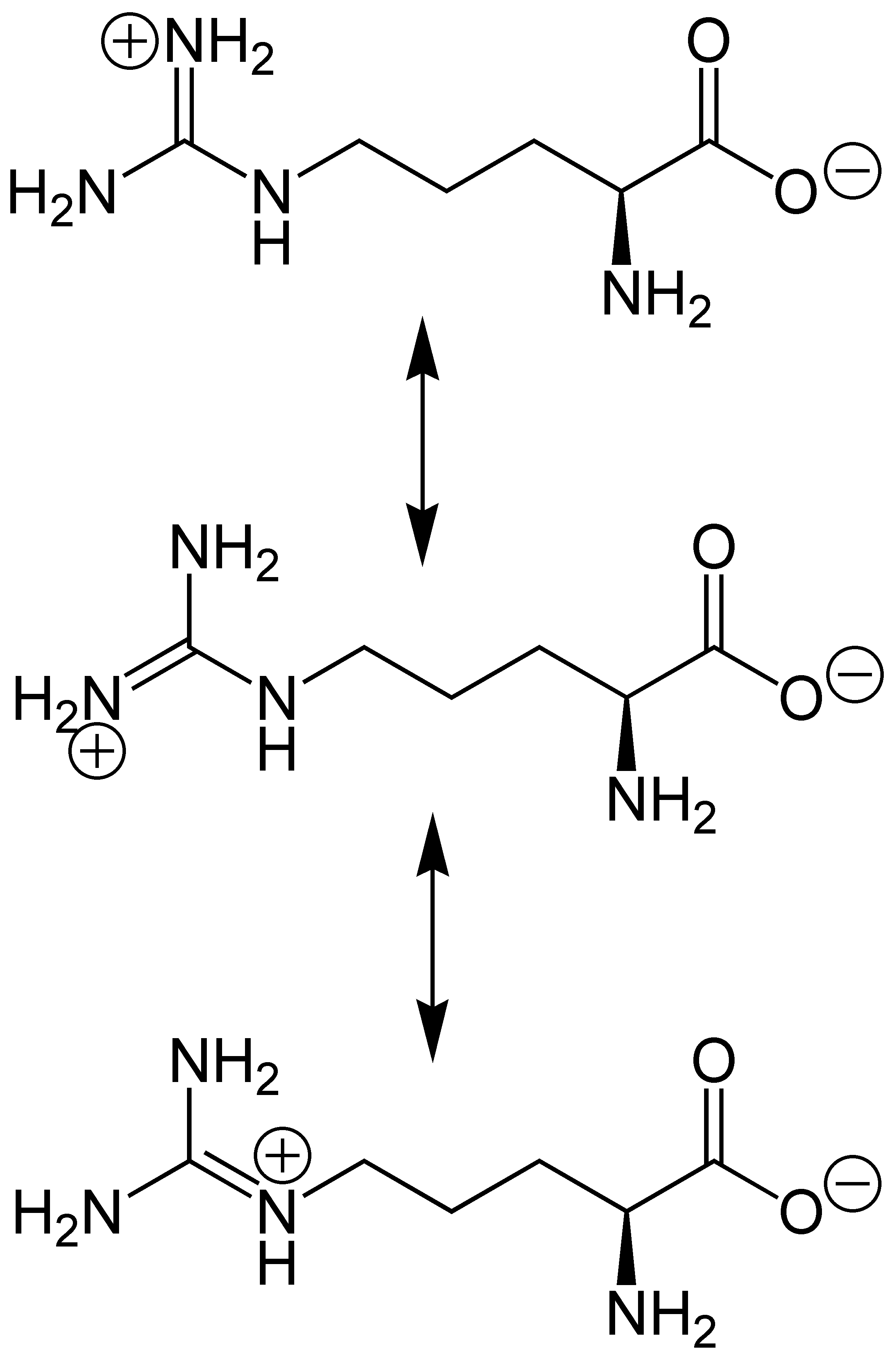 Betaine Arginine